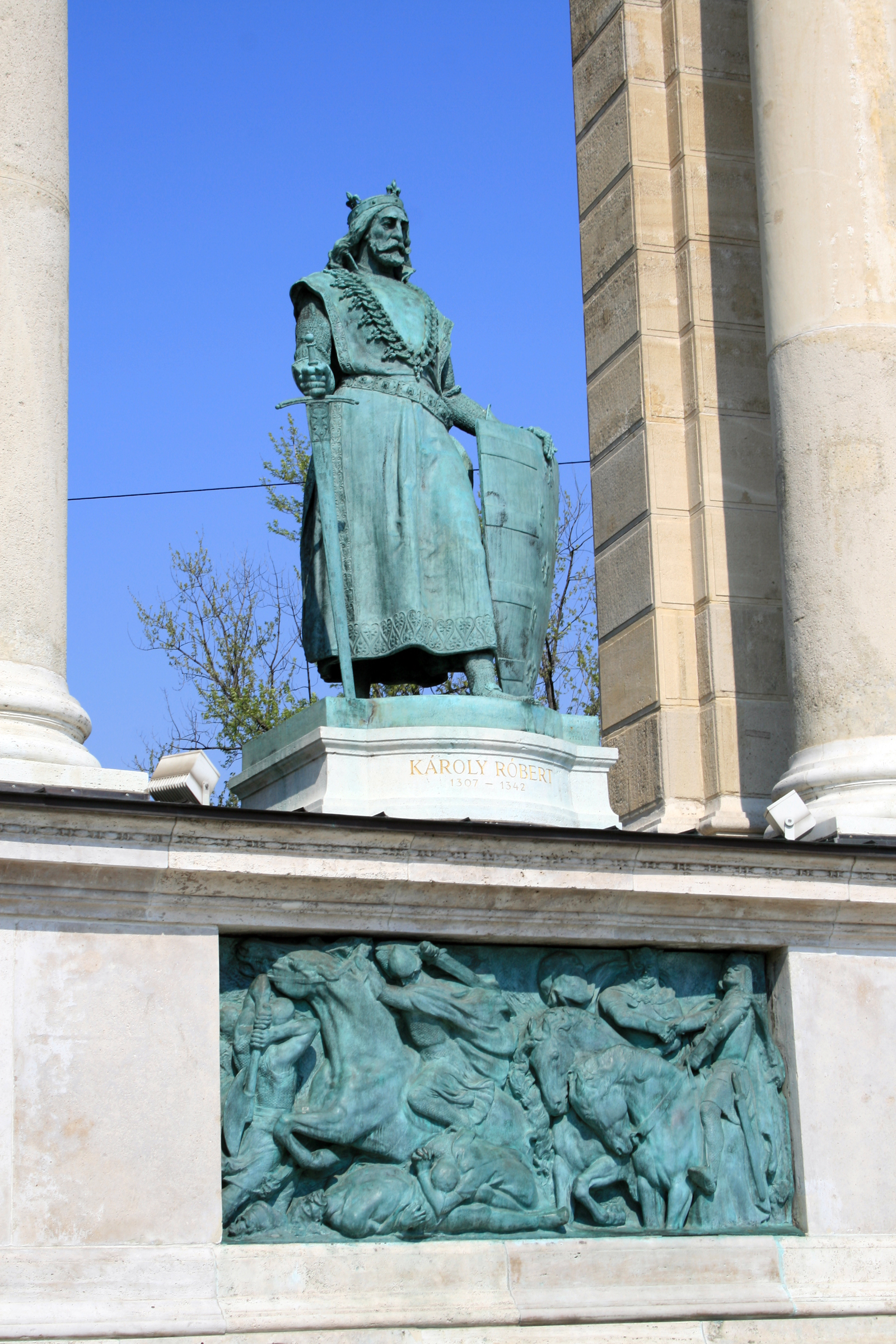 Statue of Charles I of Hungary or Károly Robert, Millenium Monument on Heroes' square, Budapest, Budapest, Hungary